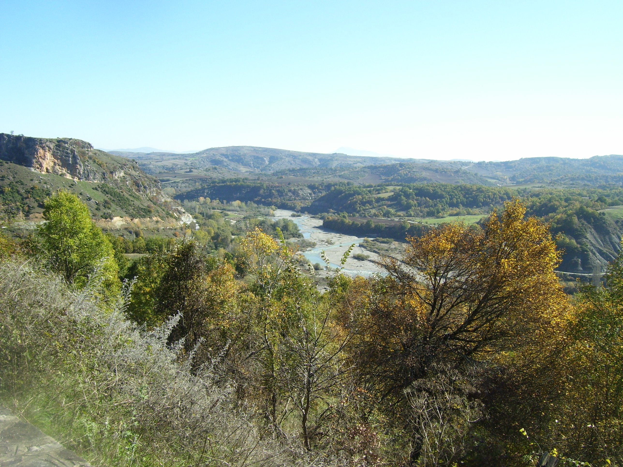 Haliakmon river from the village of Nestorio (Nestram), Kastoria region, Greece.